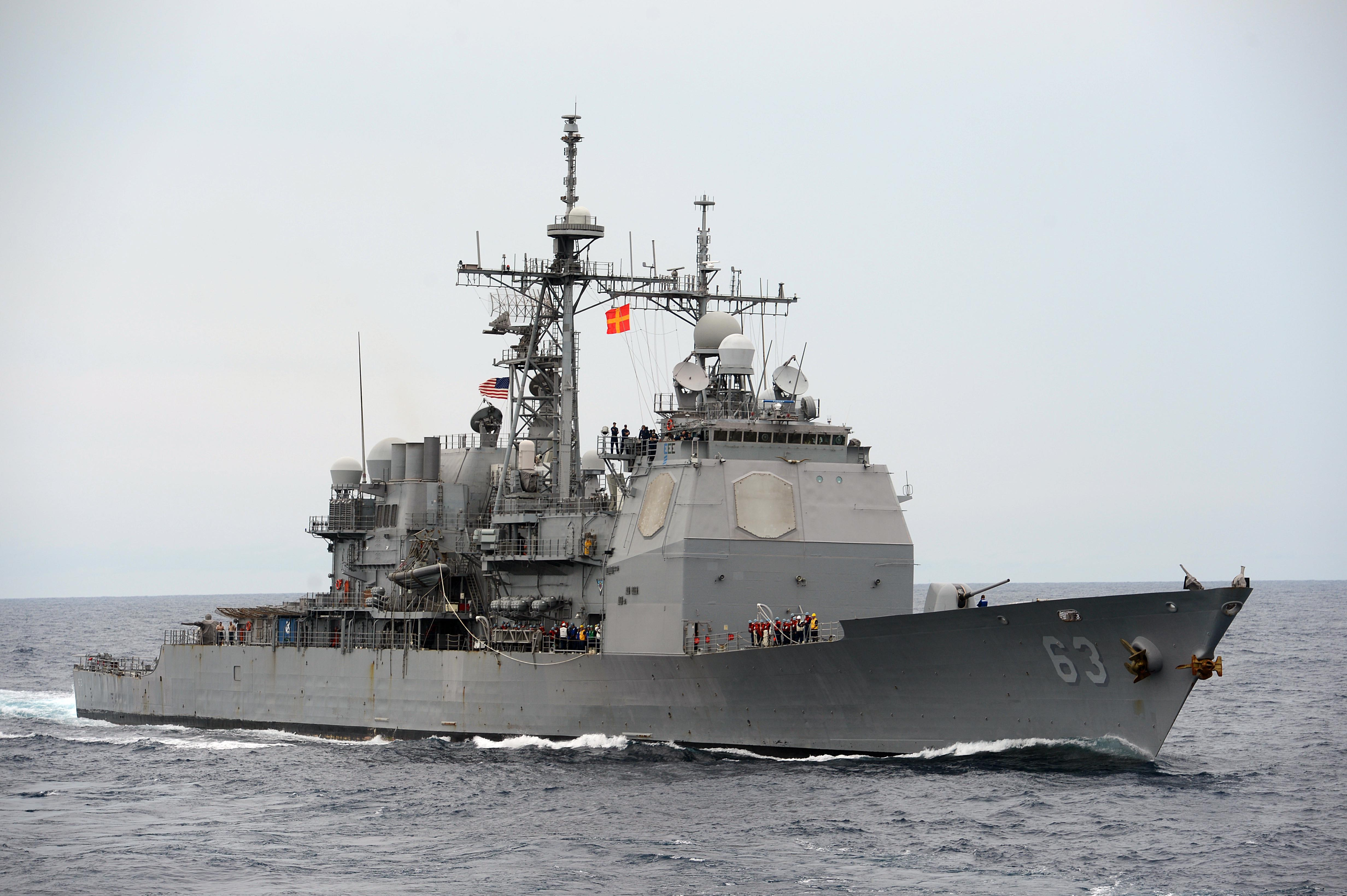 SOUTH CHINA SEA (Oct. 24, 2013) The guided-missile cruiser USS Cowpens (CG 63) maneuvers into position during a replenishment-at-sea. Cowpens is on patrol with the George Washington Carrier Strike Group in the U.S. 7th Fleet area of responsibility supporting security and stability in the Indo-Asia-Pacific region. (U.S. Navy photo by Mass Communication Specialist 3rd Class Declan Barnes/Released) 131024-N-TG831-081